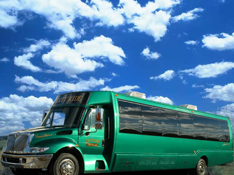 i took the photo myself.OK